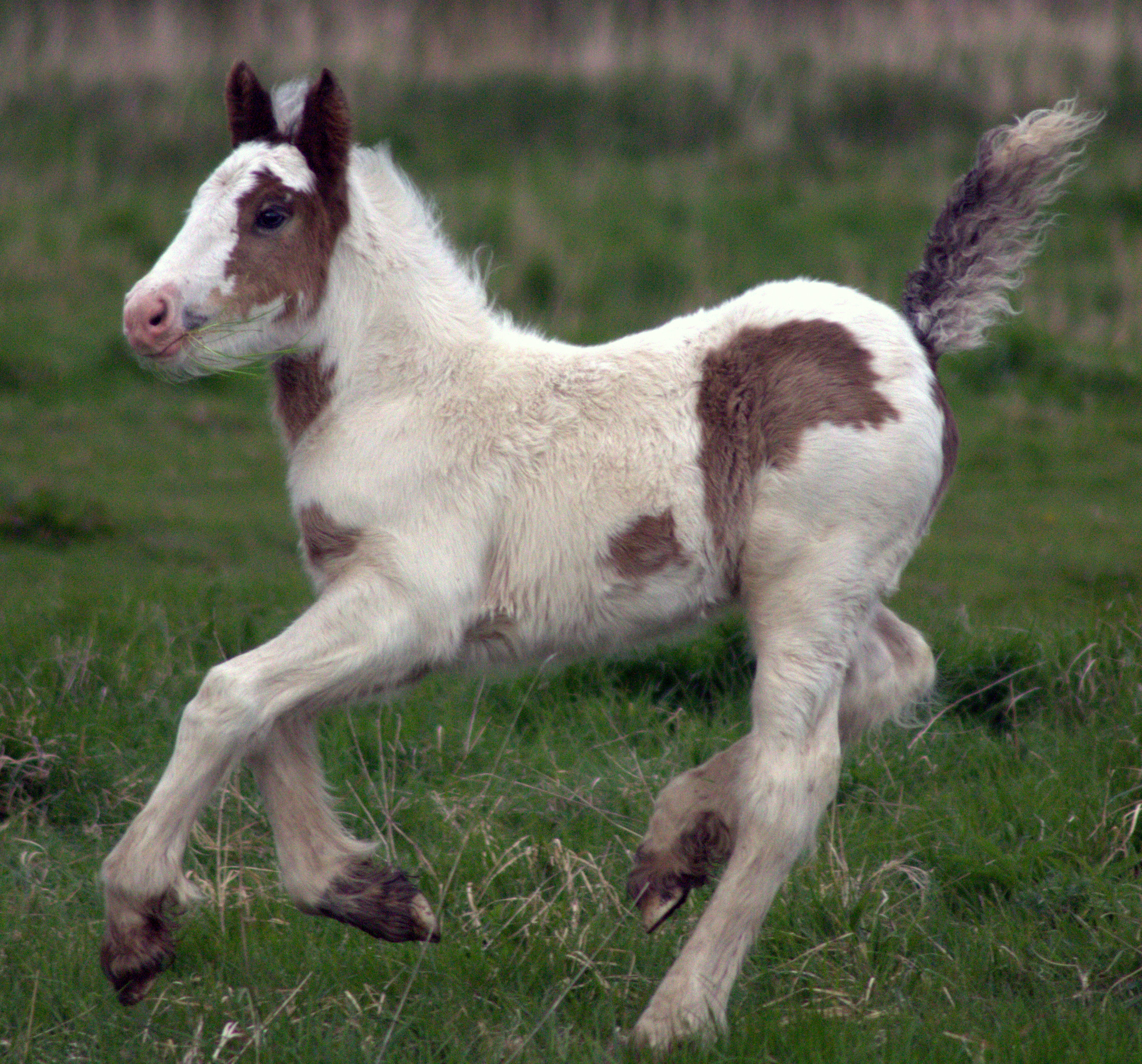 Skewbald gypsy cob filly, one month old.